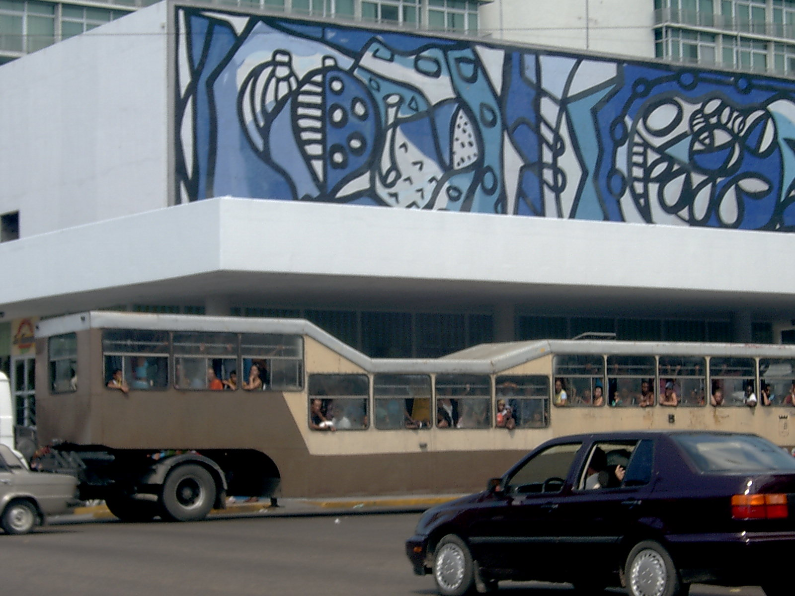 the "camel", a public transport bus in La Habana, in front of the Hotel Havana Libre